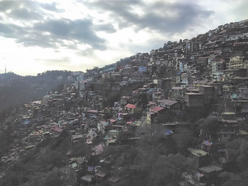 View of Capital Shimla